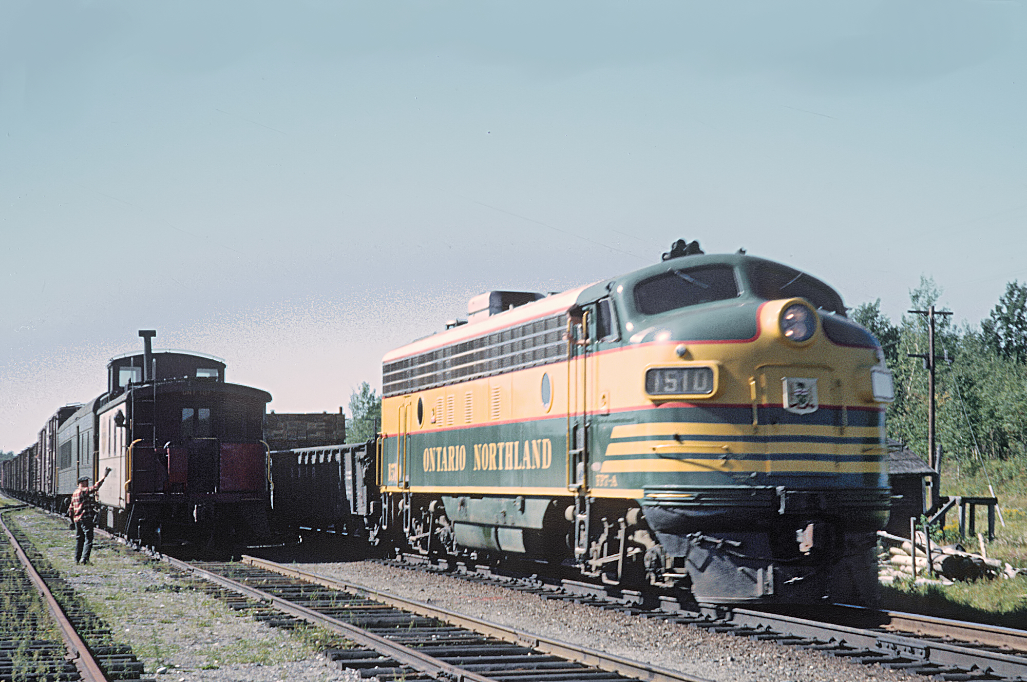 ONT FP7 1510 southbound mixed Train 344 passing northbound Mixed Train 411 at Redwater, Ont.